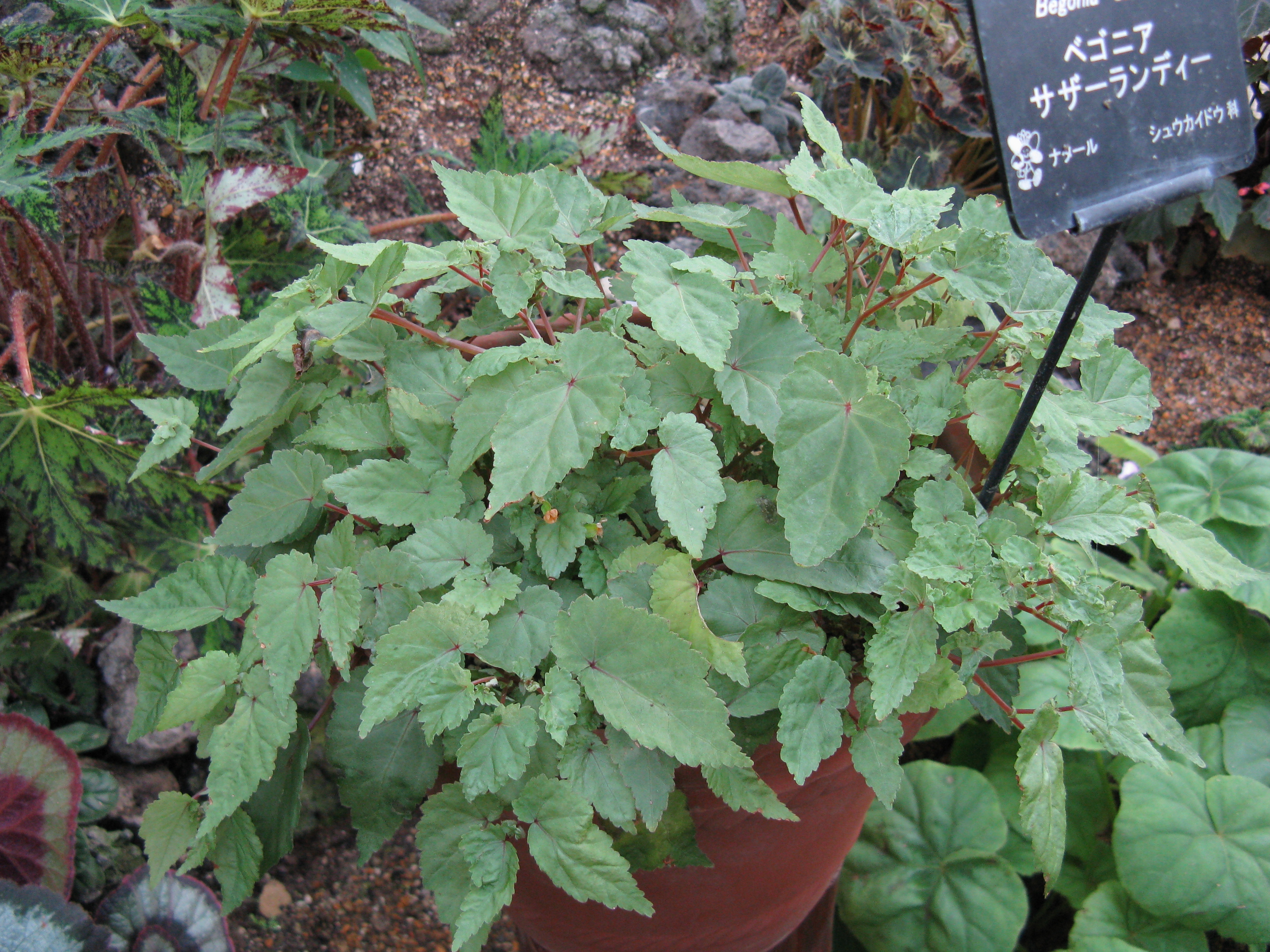 Begonia sutherlandii Place:Osaka Prefectural Flower Garden,Osaka,Japan